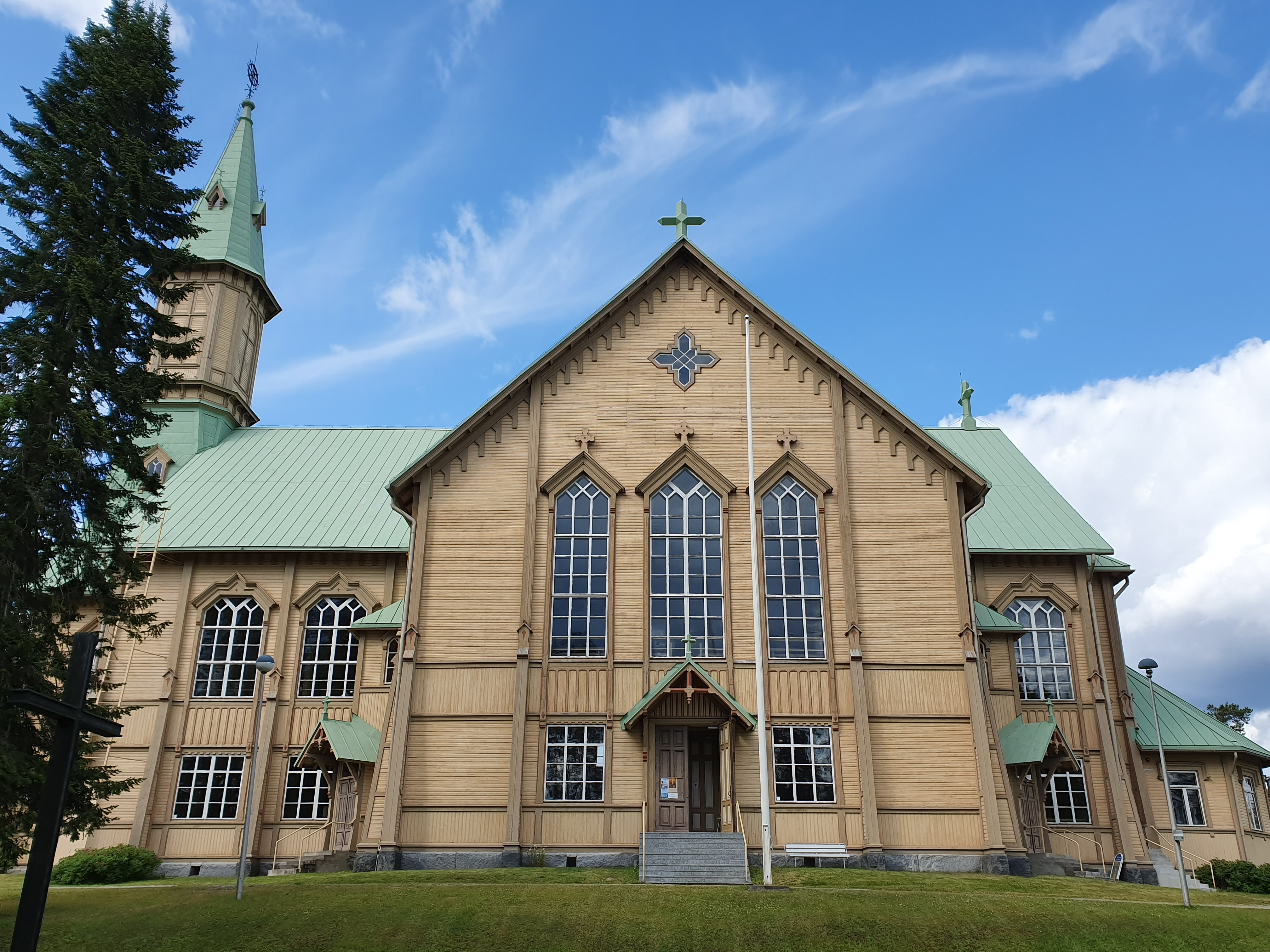 Heinävesi Church in 16 July 2019.